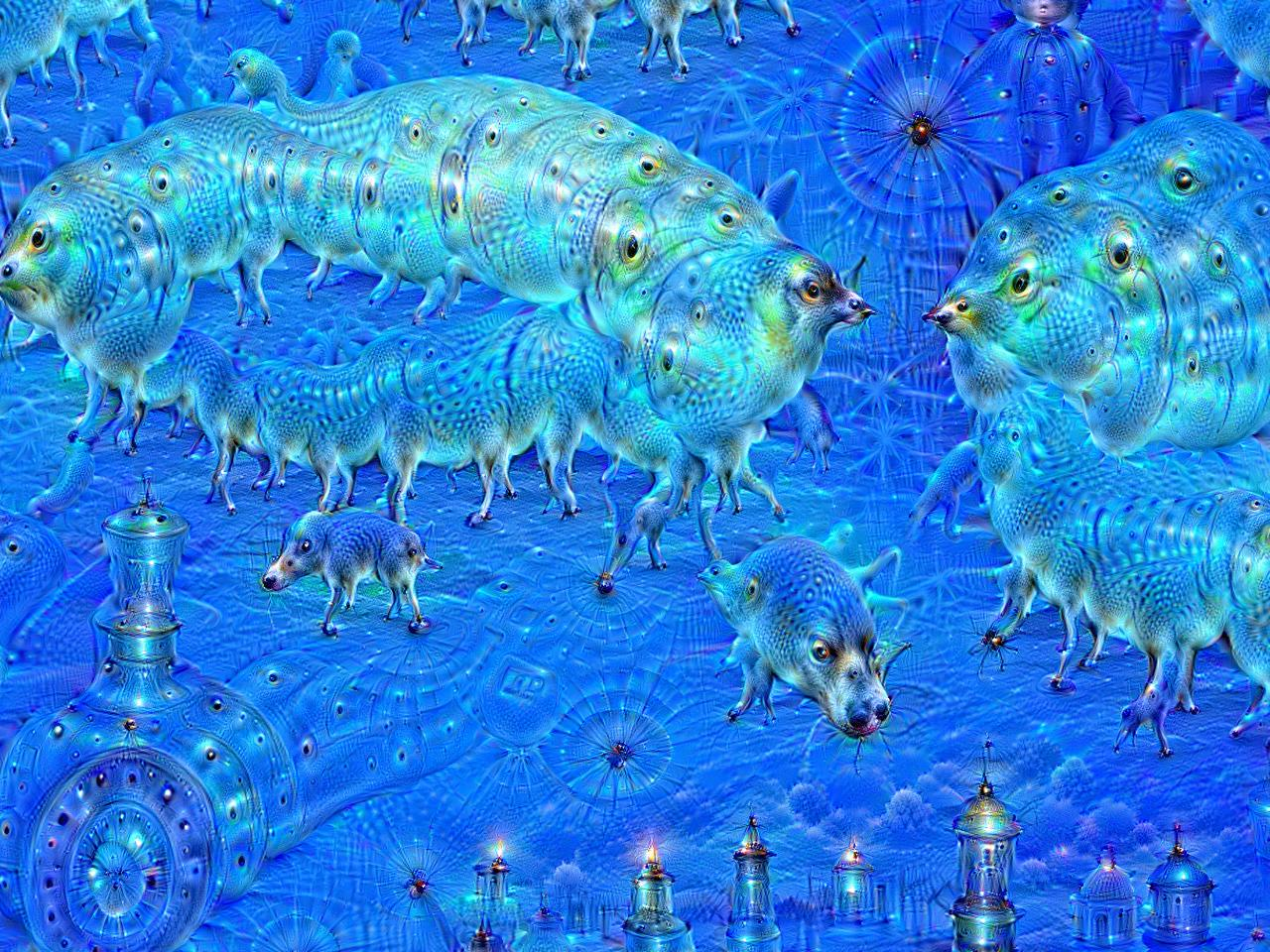 10 iterations of applying DeepDream